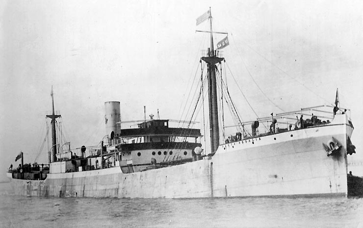 Commercial cargo ship SS Santa Rosalia prior to her 1918-1919 US Navy service as USS Santa Rosalia (ID-1503).